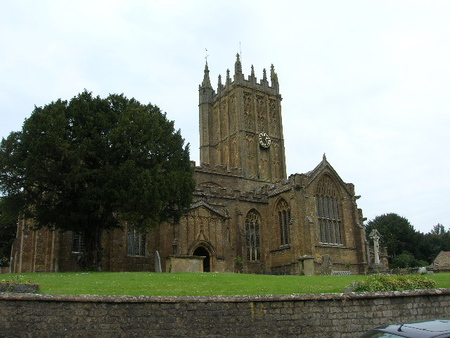 Ilminster. This market town takes its name from the River Ile and the Minster church, St Mary's.